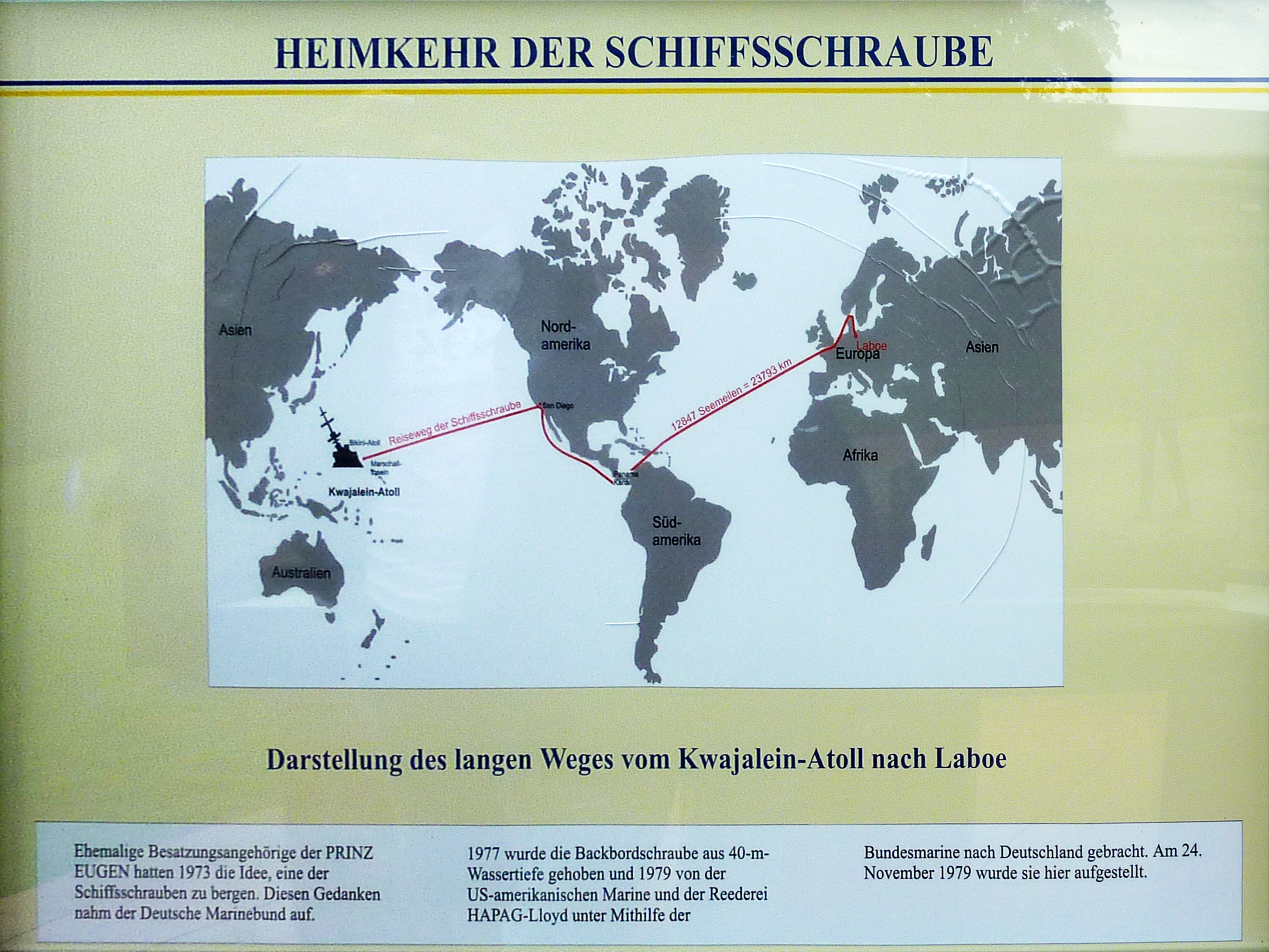 Infotafel zu Prinz Eugen